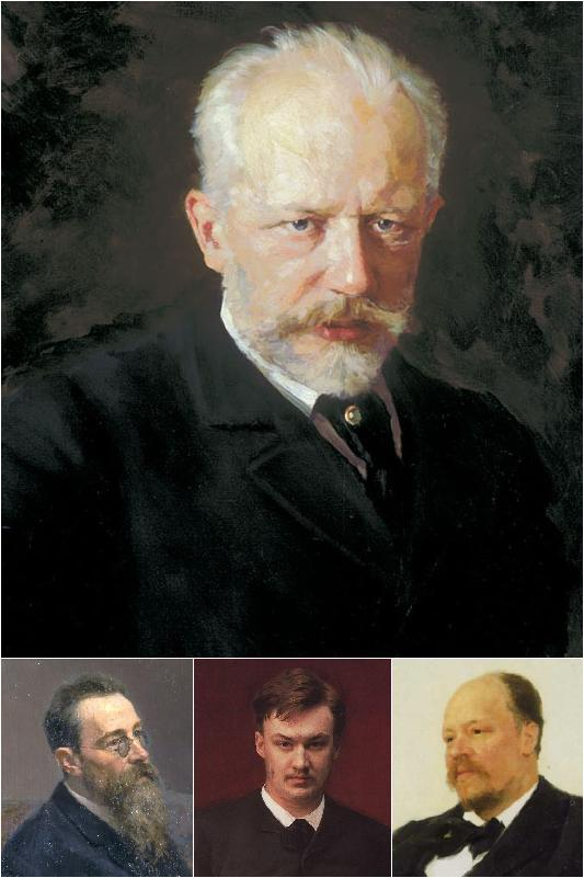 Images of Pyotr Ilyich Tchaikovsky (large) and members of the Belyayev circle: (left to right) Nikolai Rimsky-Korsakov, Alexander Glazunov, and Anatoly Lyadov.